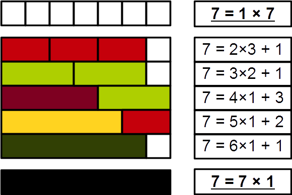 Showing, through Cuisenaire rods, that 7 is a prime number.